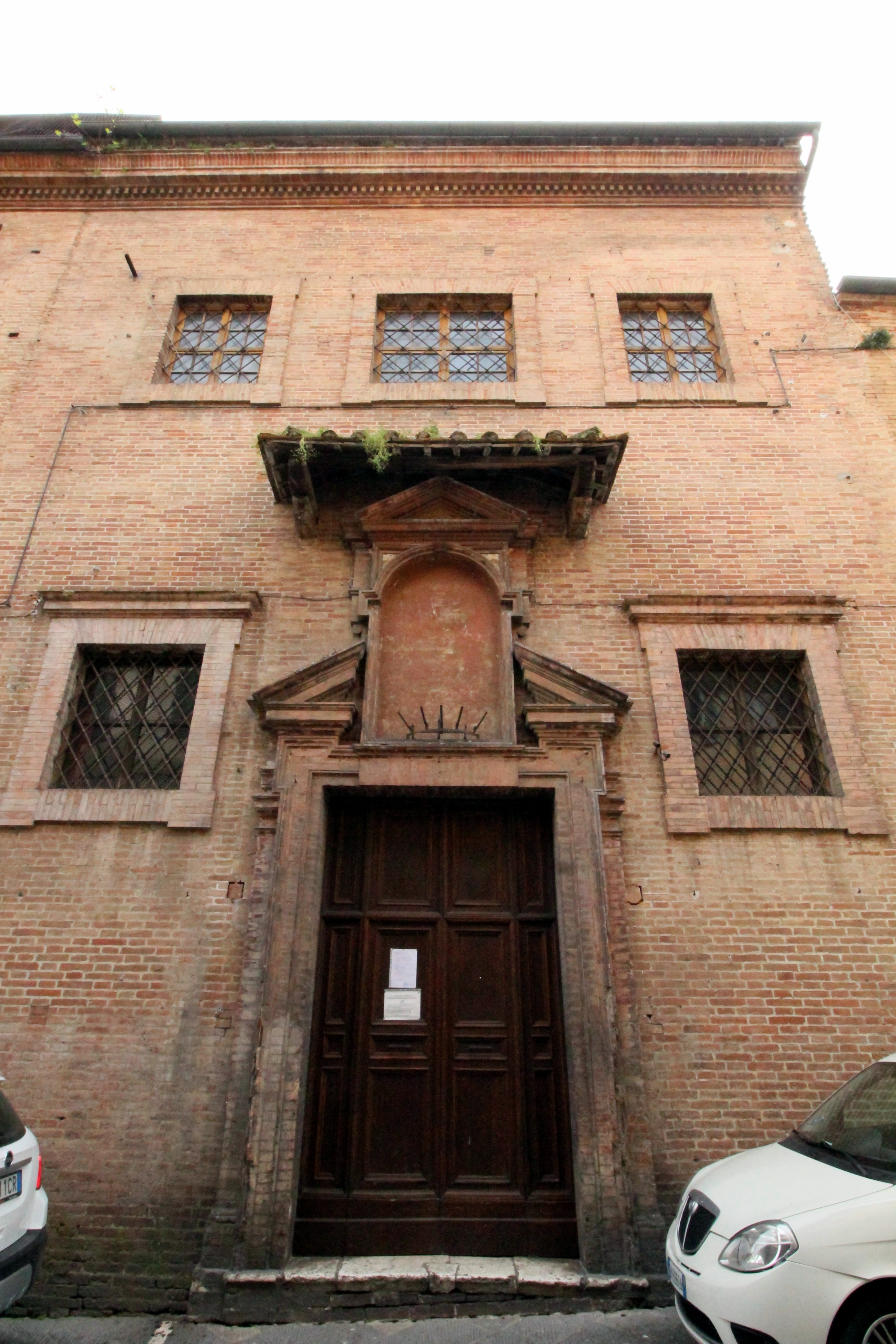 Church of San Giacinto, Via dei Pispini 162, Siena, Tuscany, Italy